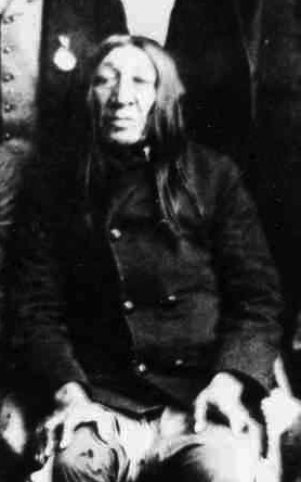 Kā-kīwistāhāw, or Kahkewistahaw, cropped from an 1886 photo of four Cree chiefs.